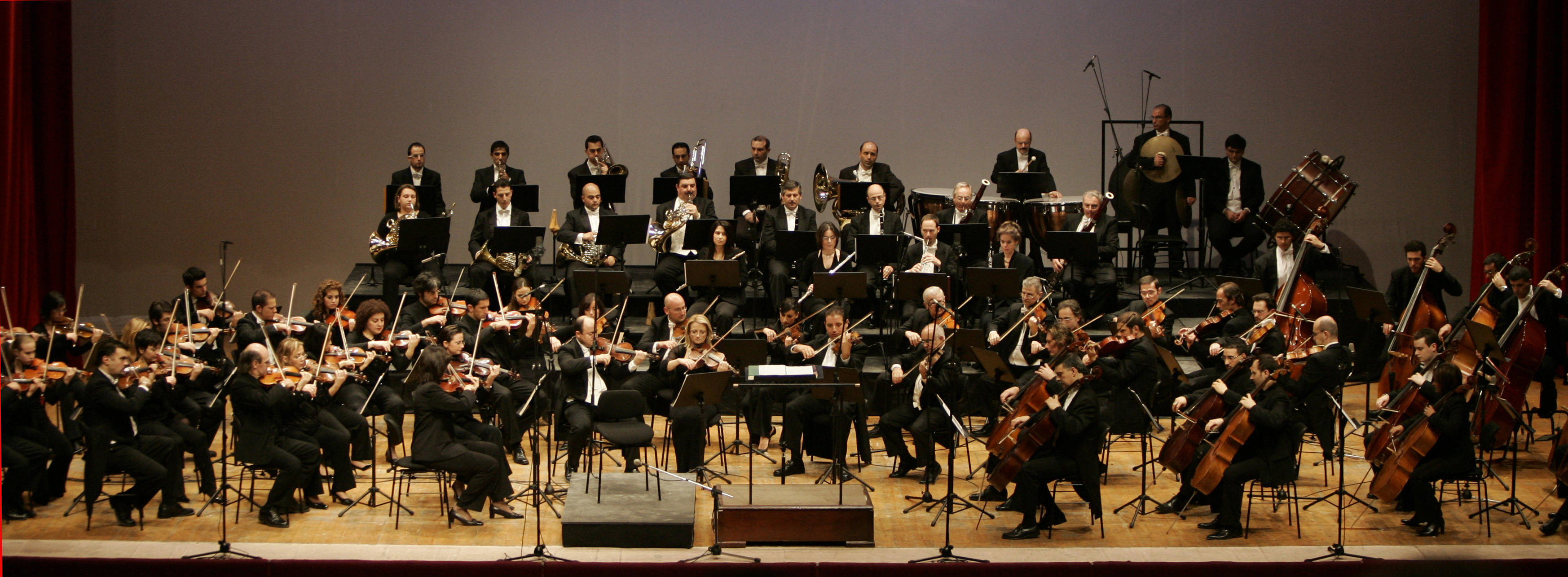 MPO Official Photo